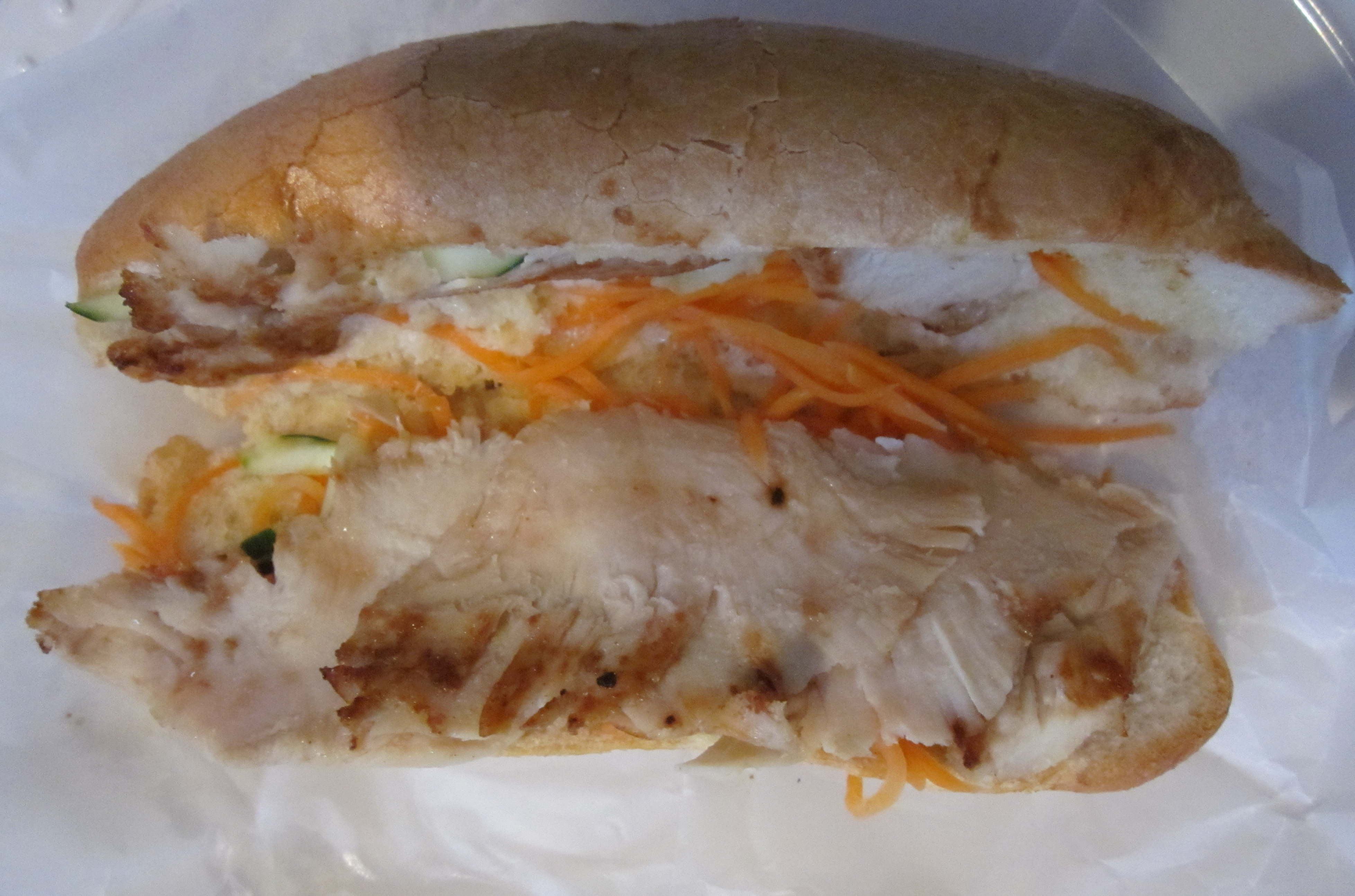 Chicken breast sandwich, Vietnamese restaurant in the Carrollton section of New Orleans.